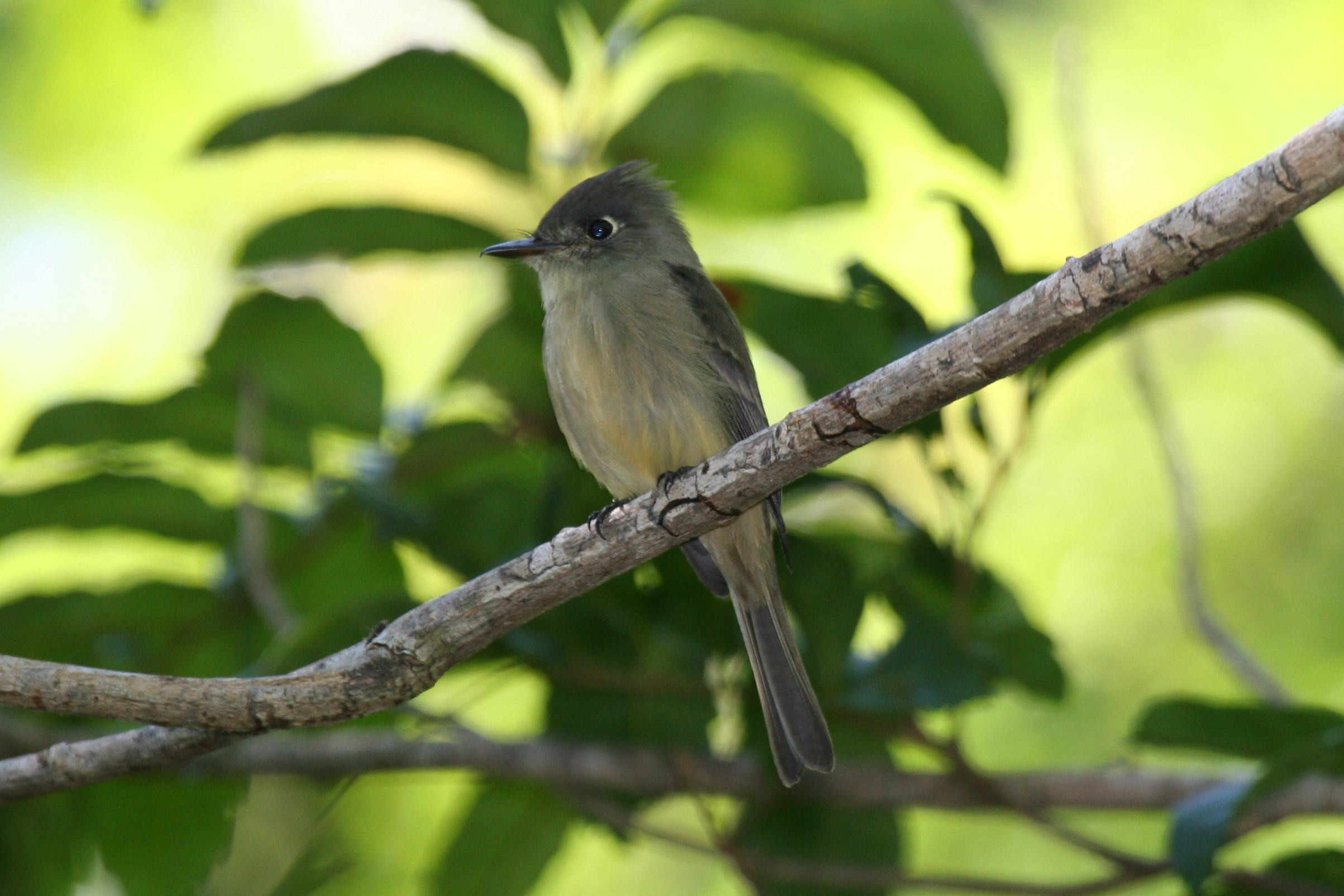 Greater Antillean Pewee (Contopus caribaeus caribaeus), Cuban Pewee